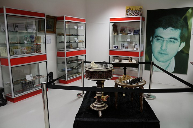 View in the Chess Museum